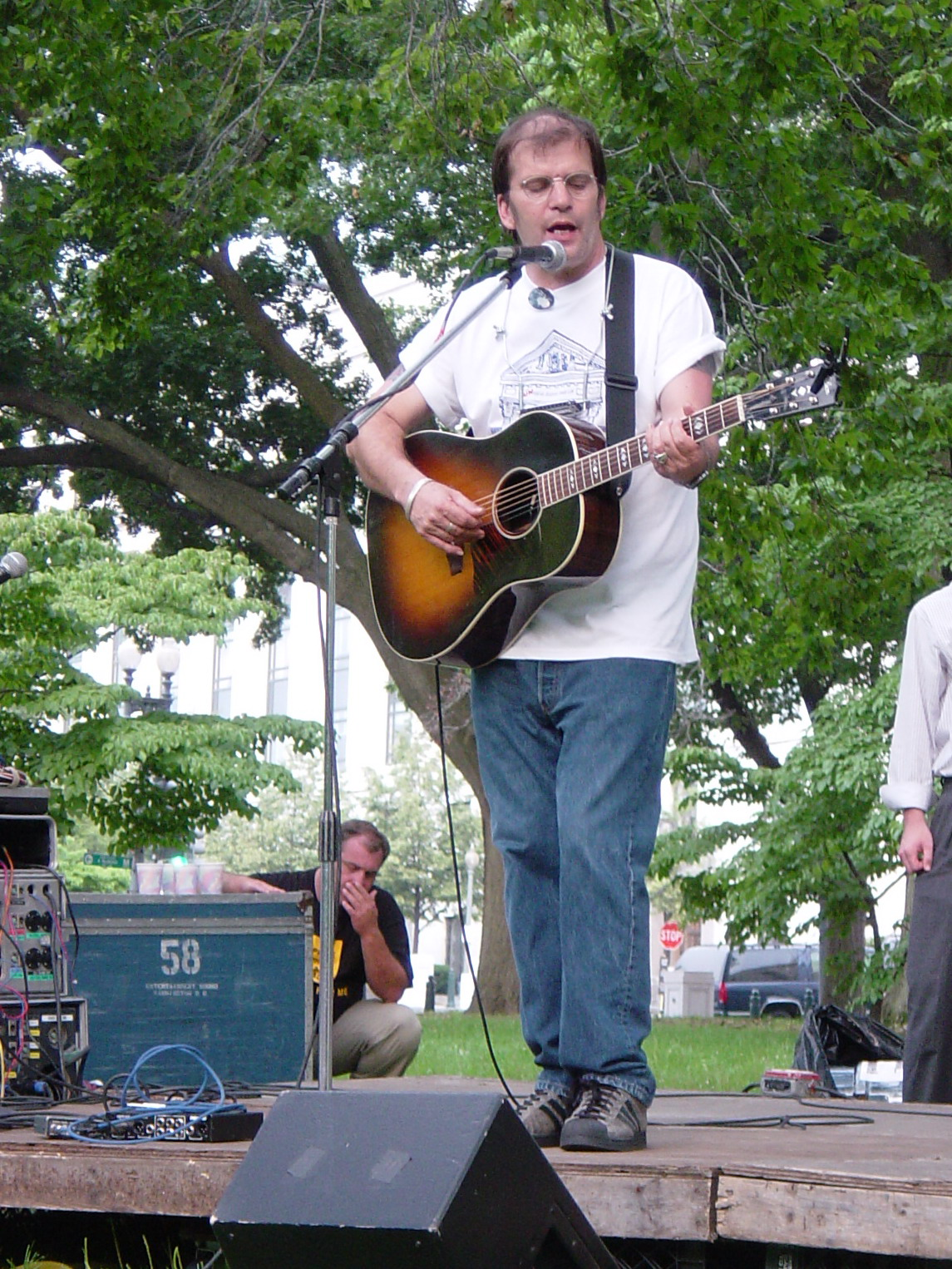 Steve Earle playing a free concert in front of the Supreme Court. July 1st 2003 Taken by: Wesley Wettengel